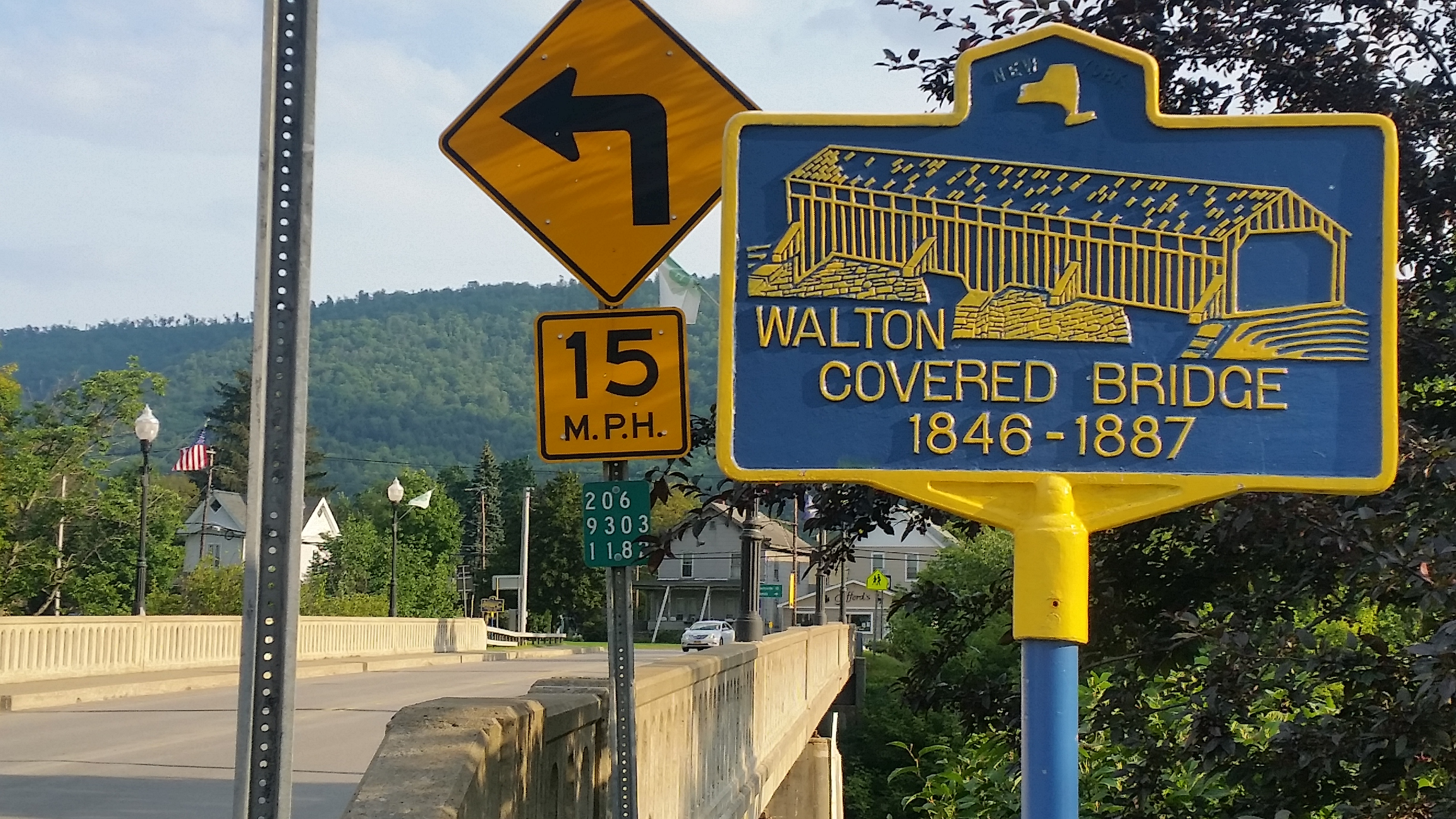 New York State historical marker for the (former) Walton Bridge. Notice that this marker has a picture, and in the background you can see the marker on the other (south) side of the bridge.